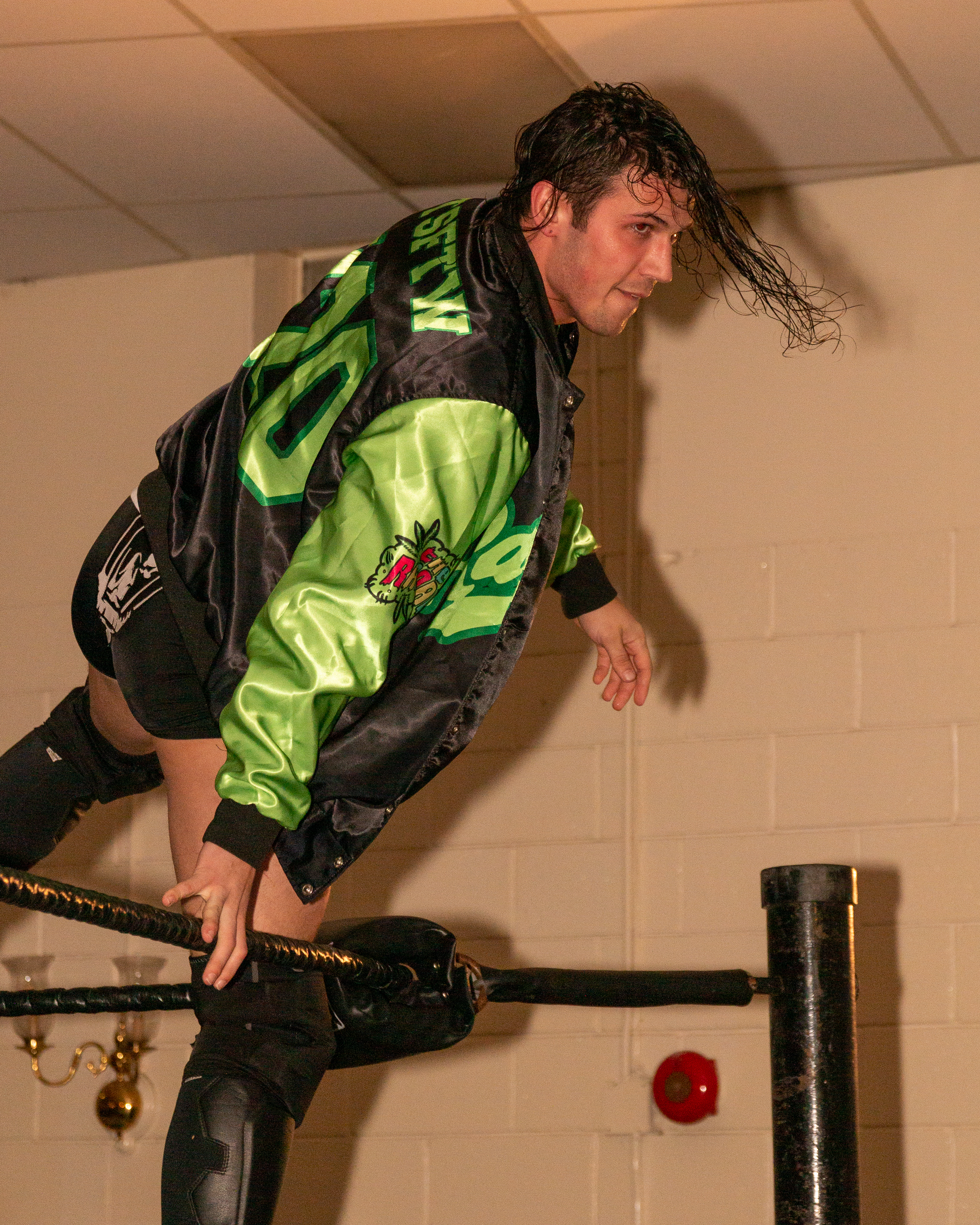 Professional wrestler Zachary Wentz making his ring entrance at Alpha-1's Final Act X at Hamilton, ON